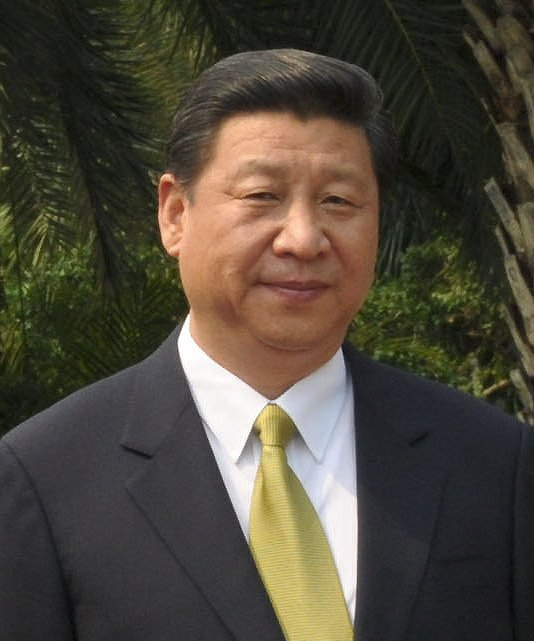 A cropped of Xi Jinping with Mexican President Enrique Peña Nieto in Sanya, China.